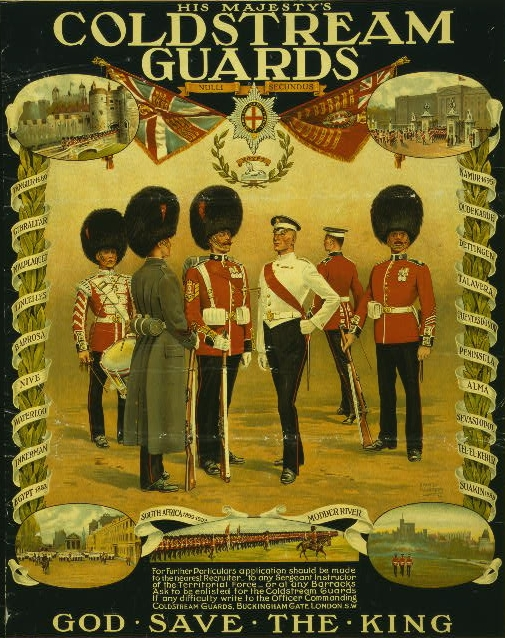 World War I recruitment poster for the Coldstream Guards. Library of Congress description: "Recruiting poster for the Cold Stream Guards shows various uniforms worn by the Guards. In each corner are vignettes of the Guards on duty in London and on each side is listed the campaigns in which the Guards fought. Other regimental references are included."